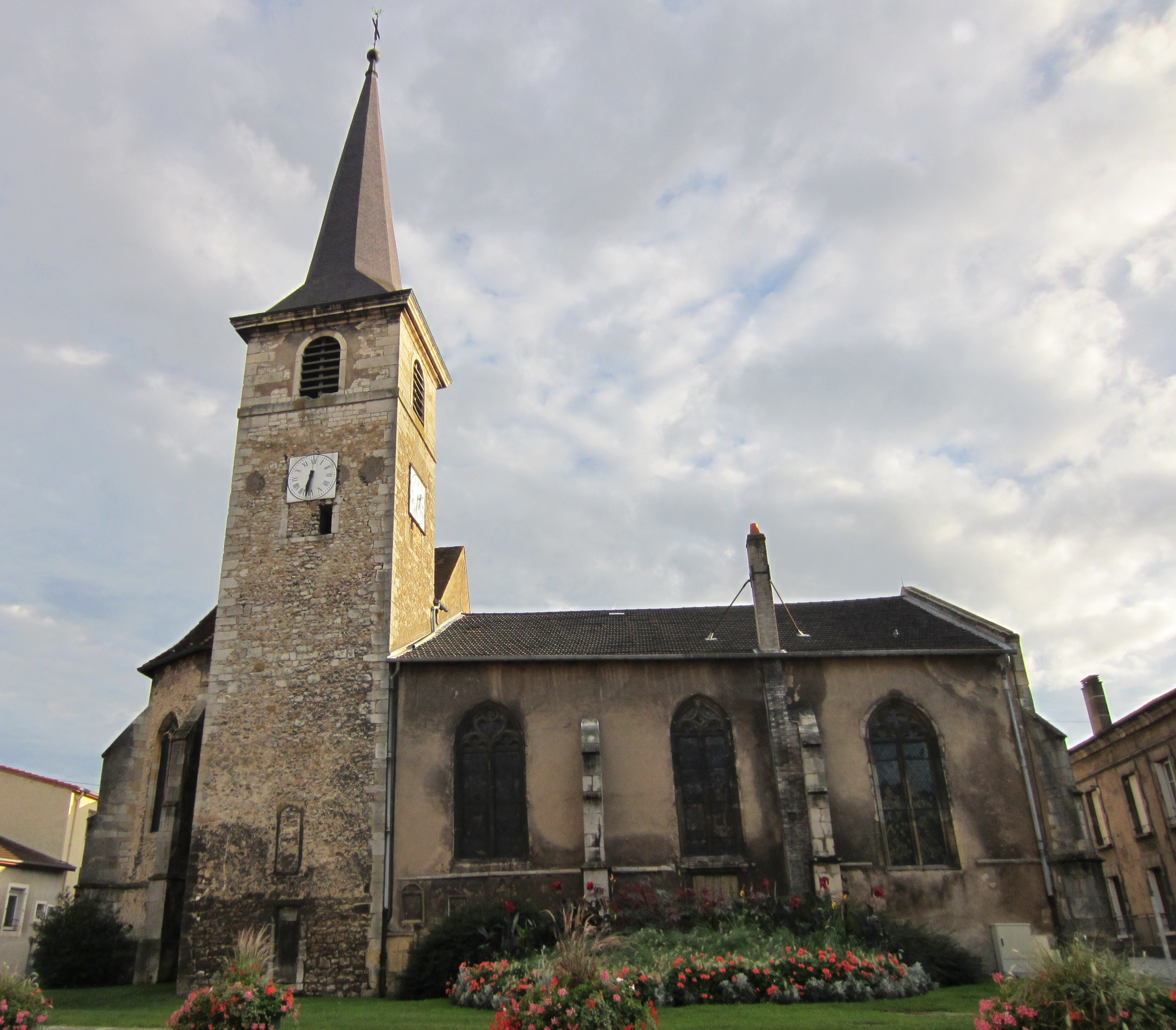 Description eglise Pagny Moselle Date13 September 2011Sourcemon appareil photoAuthorAimelaimePermission (Reusing this file) eglise Pagny Moselle